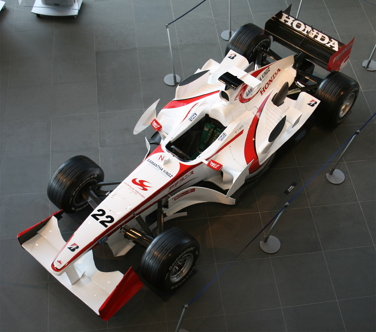 Super Aguri SA05 at Bridgestone Today